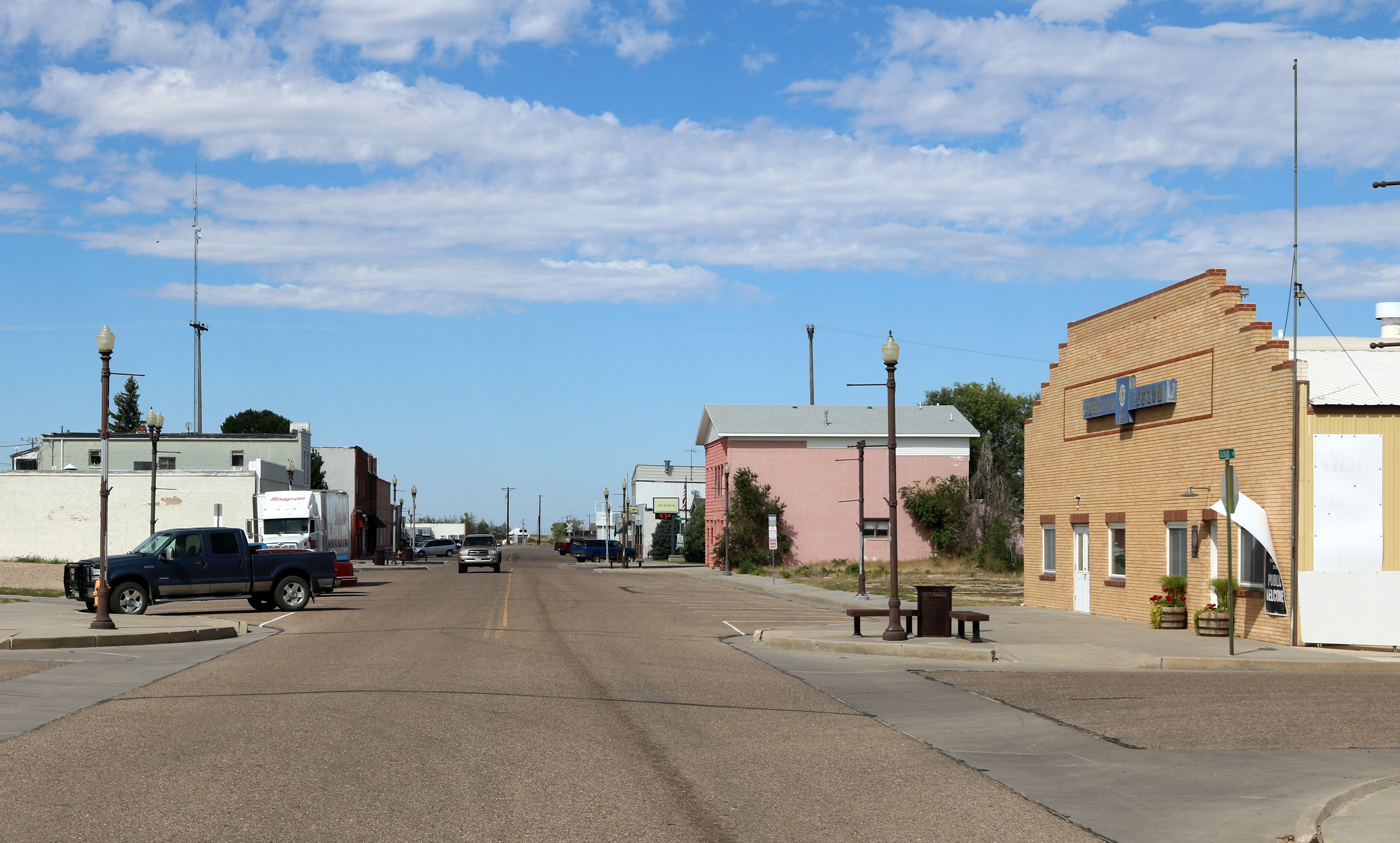 A view of the business district of Stratton, Colorado. The view is to the north along Colorado Avenue from just south of 2nd Street.